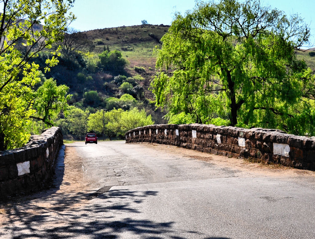 This bridge across the Blyde River is situated about three kilometres from Pilgrim’s Rest on the road to Lydenburg and the Blyde River Poort. The bridge was built under Act No. 201, passed by the Executive Council on 11 March 1896.